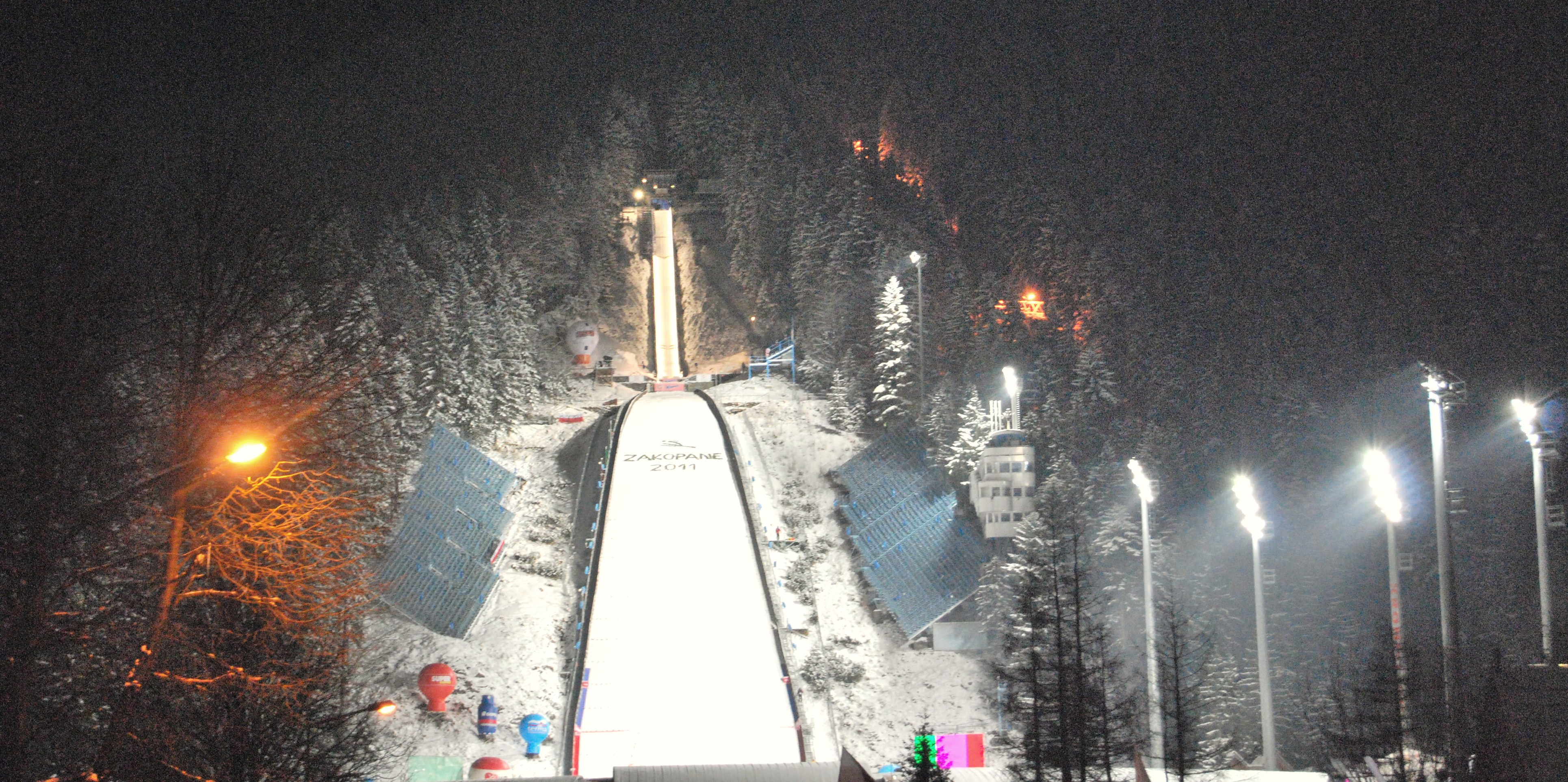 Wielka Krokiew in Zakopane.